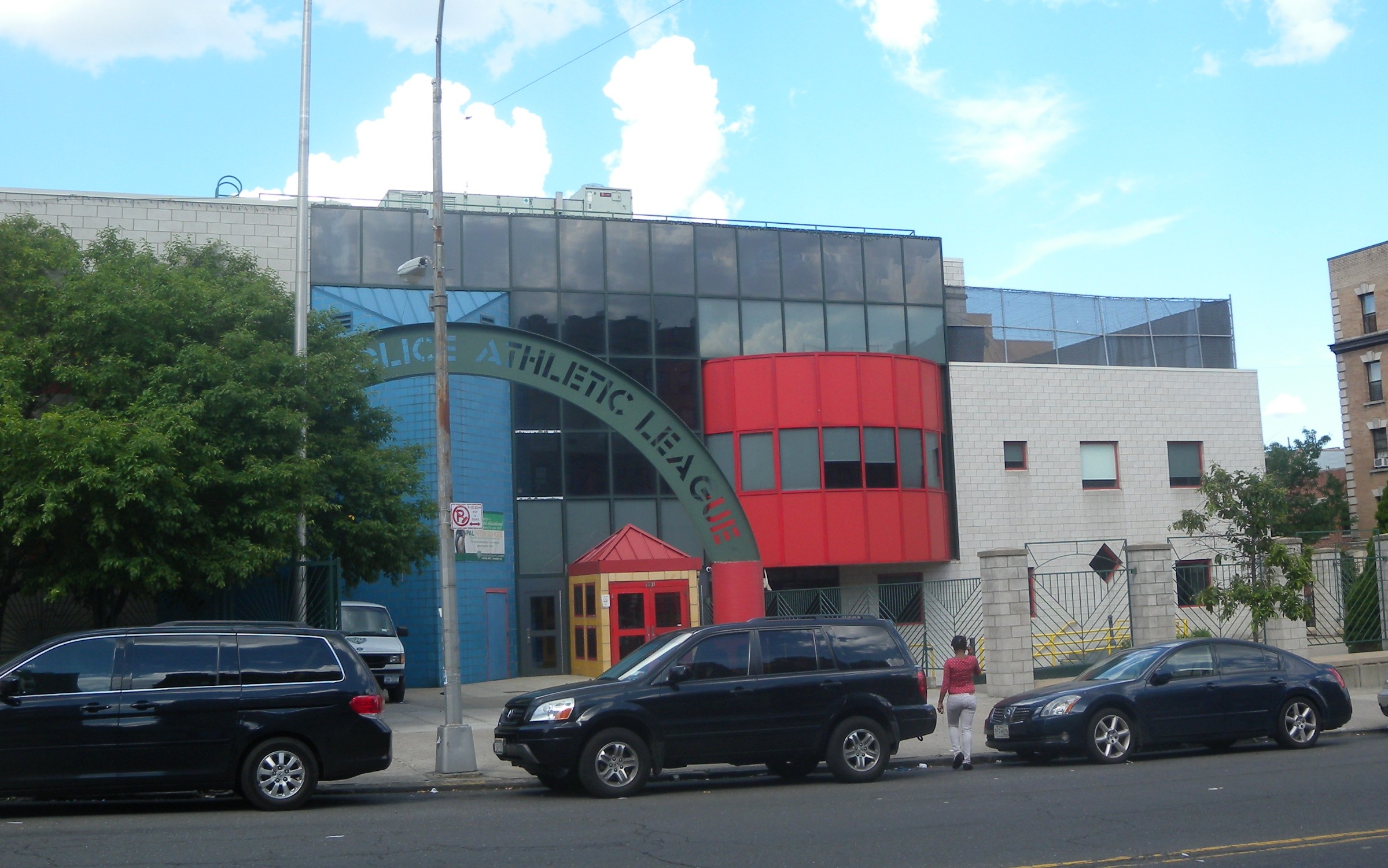 Looking northeast across Longwood Avenue at Police Athletic League on a mostly sunny afternoon.